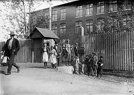 Original description: Coming out at noon, Merrimac Mills. All workers, even the boys at the side of the gate. Huntsville, Ala., 11/18/1910. Photographed by Lewis Hine.